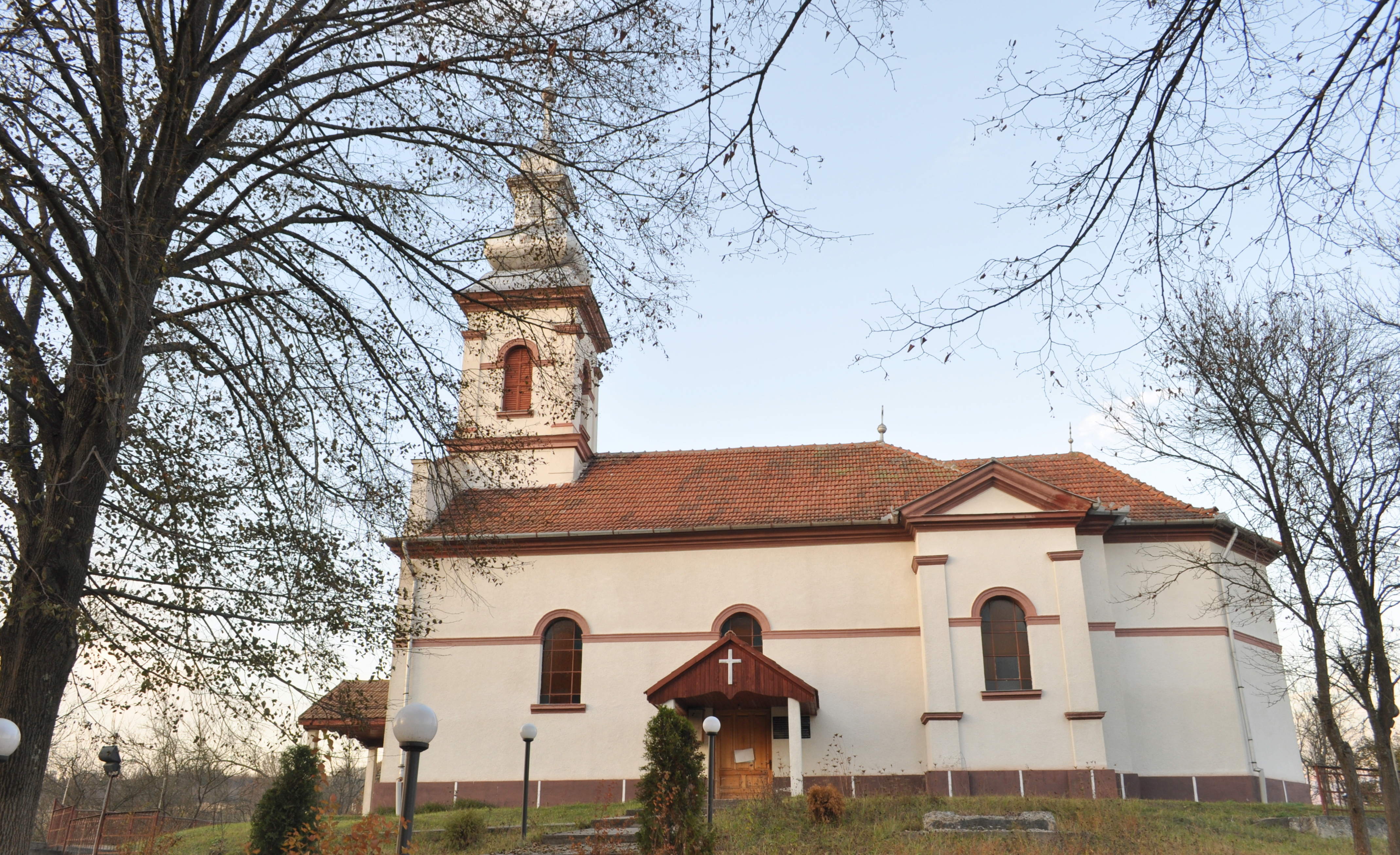 Vârfurile, Arad county, Romania